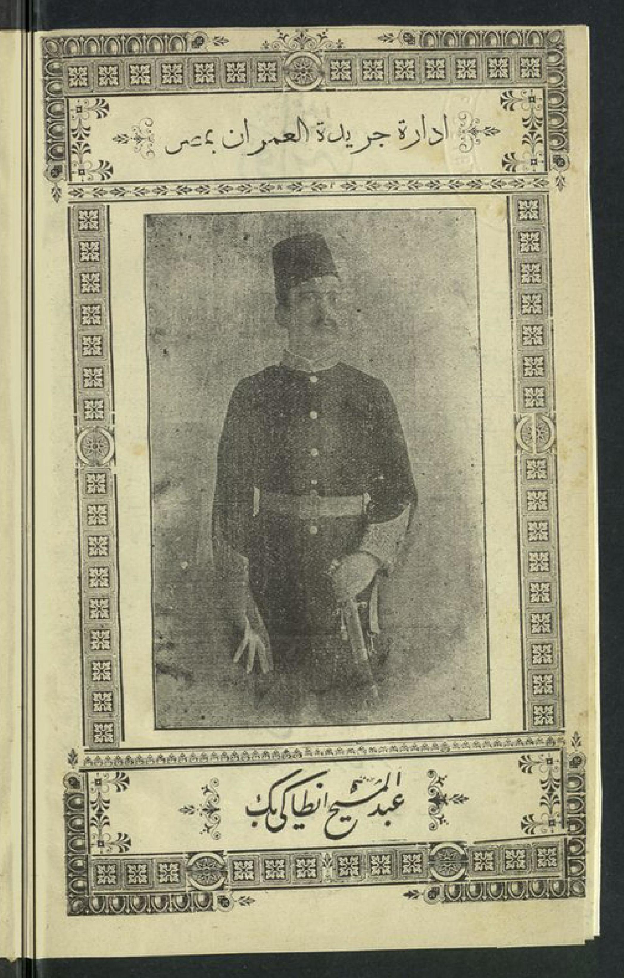 Page 8 of "Shahid al-Jaljalah" novel, shows a portrait of the author, Abd al-Masih al-Antaki